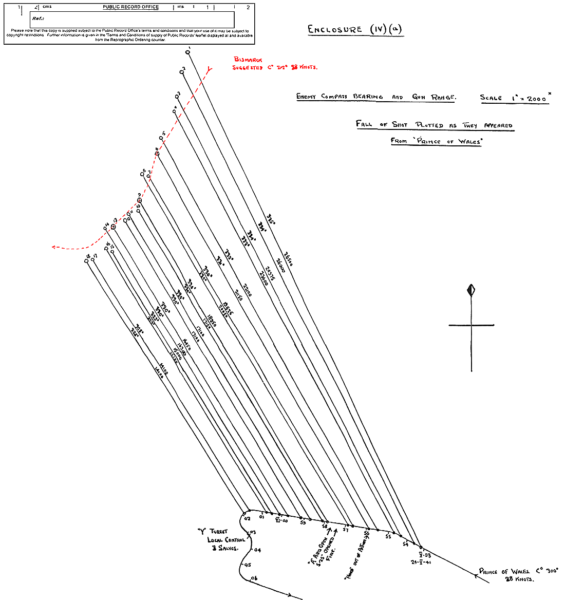 Gunnery plot of HMS Prince of Wales for the Battle of the Denmak Strait, 24 May 1941.